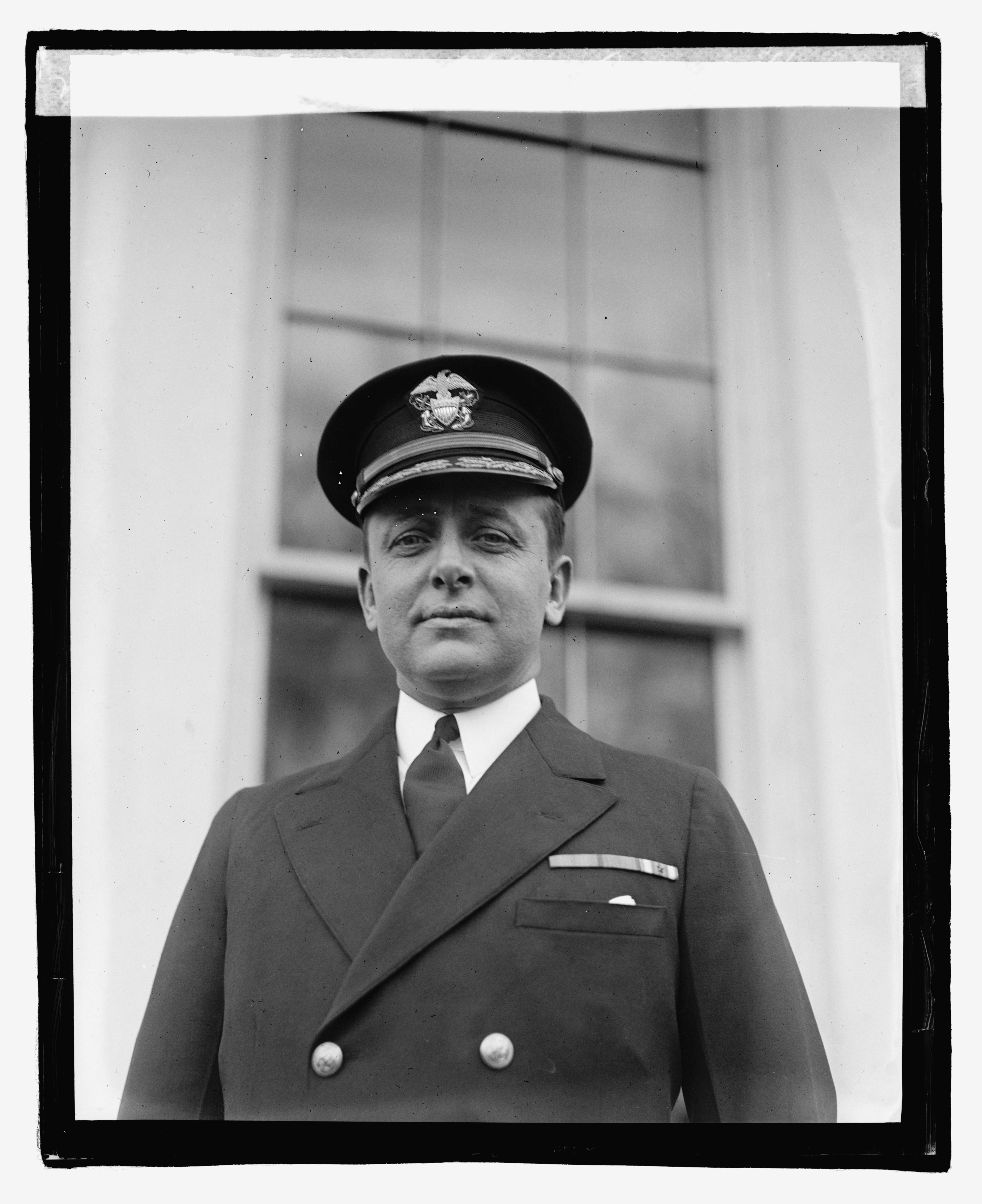 Title: Comdr. Adolphus Andrews, 11/9/22 Abstract/medium: National Photo Company Collection (Library of Congress) Physical description: 1 negative